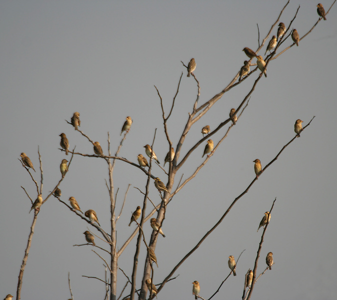 A winter flock of Baya weavers Ploceus philippinus in Hyderabad, central India